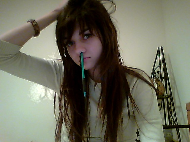 Self-portrait of a young woman making fun with a pen in the nose.